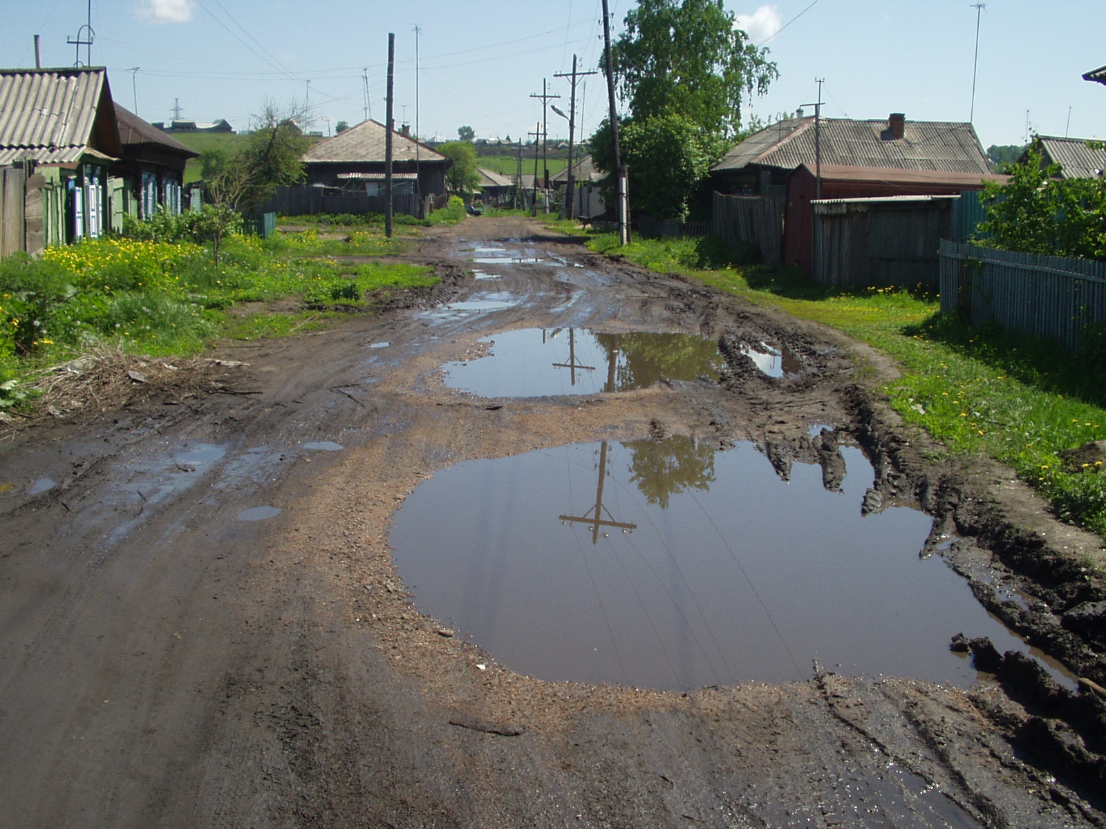 The old part of the town Zaozyornyy. Taken on June 12, 2005 by Efenstor.